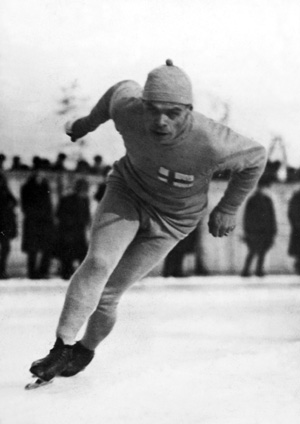 Clas Thunberg — finnish speedskater who won five gold medals: three in Chamonix (1924) and two in St. Moritz (1928). Also in Chamonix (1924) he won silver and bronze medals.